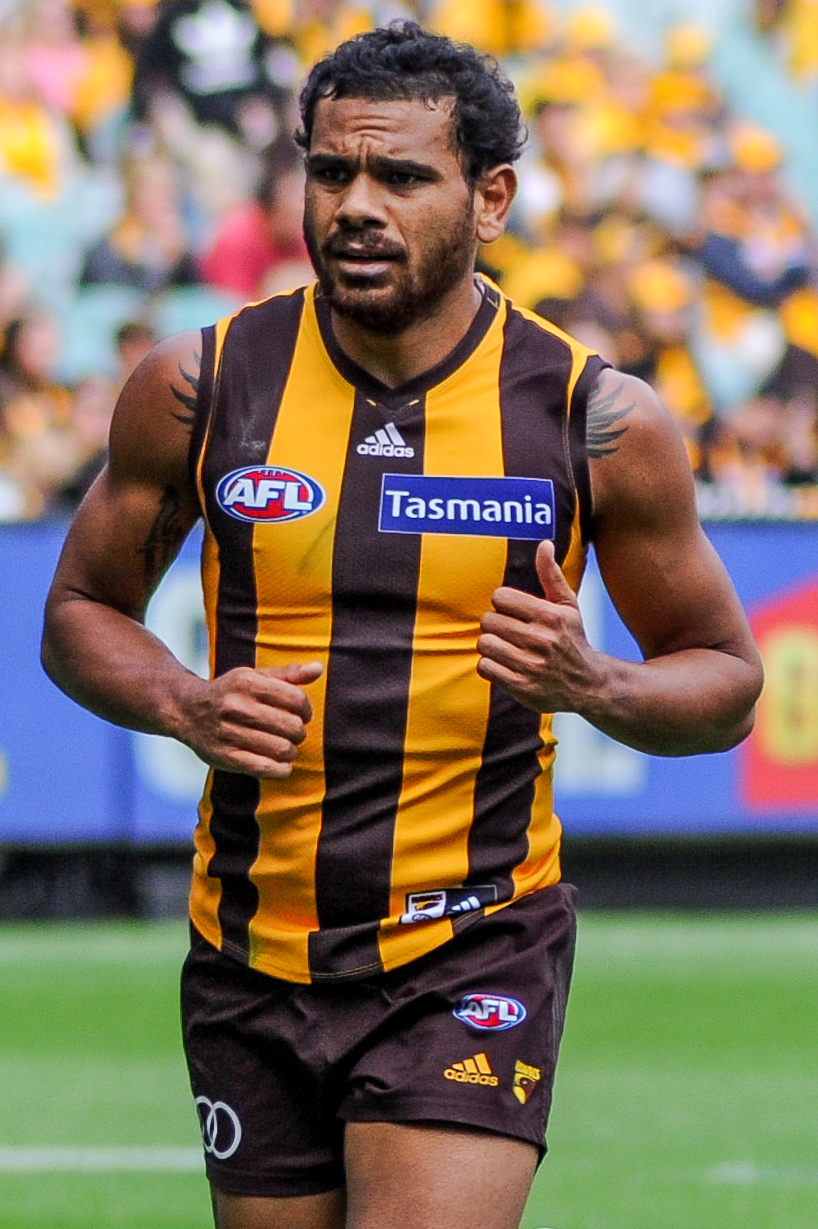 Cyril Rioli during the AFL round two match between Hawthorn and Adelaide on 1 April 2017 at the Melbourne Cricket Ground in Melbourne, Victoria.